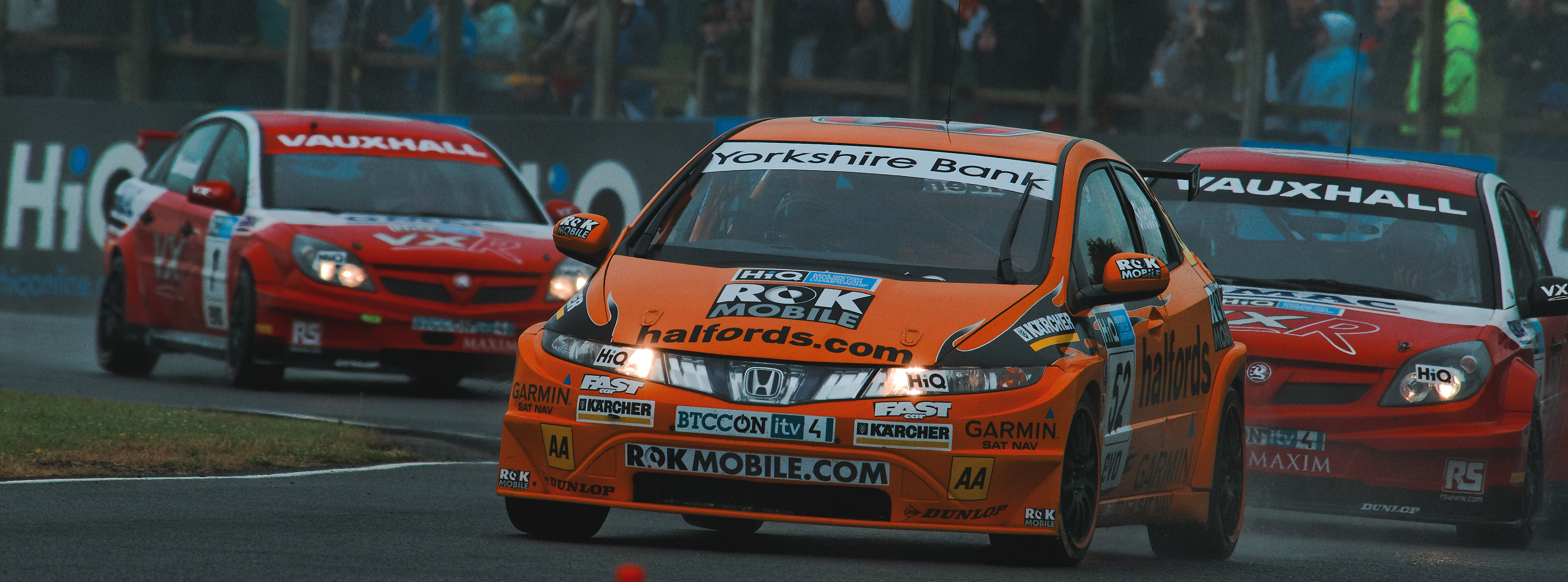 Gordon Shedden driving a Honda Civic at the Croft round of the 2008 British Touring Car Championship, chased by Matt Neal and Fabrizio Giovanardi on Vauxhall Vectras.